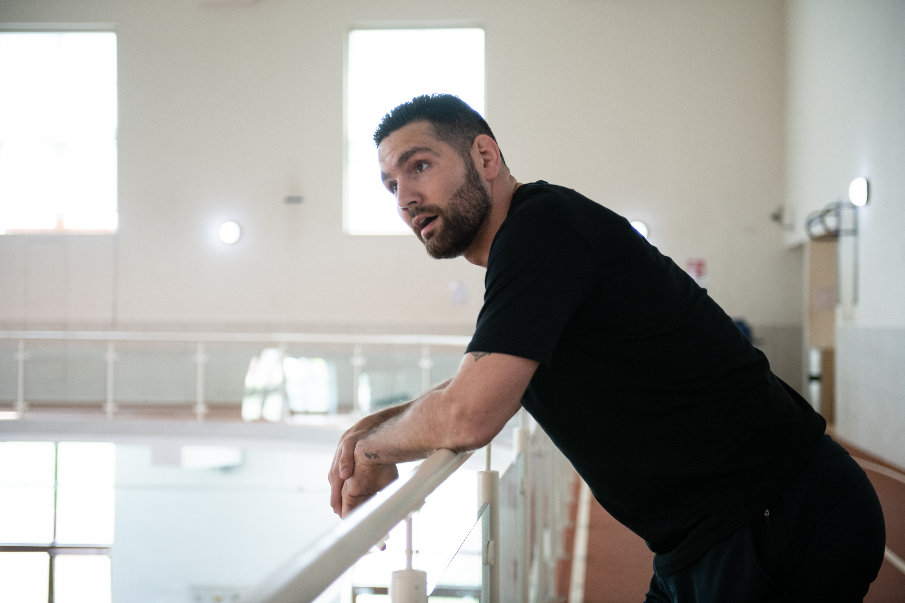 Entertainers and athletes participate in an obstacle course style series of events at Caserma Del Din as part of U.S. Army Garrison Italy, the seventh and final stop on the annual Vice Chairman’s USO Tour, April 3, 2019. Country music artist Craig Morgan, celebrity chef Robert Irvine, UFC Hall of Famer BJ Penn, former UFC Middleweight champion Chris Weidman, professional mixed martial artist Felice Herrig, two-time MLB World Series champion Shane Victorino; and professional surfer Makua Rothman joined Air Force Gen. Paul J. Selva, vice chairman of the Joint Chiefs of Staff, on a tour across the world as they visit service members overseas to thank them for their service and sacrifice. (DoD Photo by U.S. Army Sgt. James K. McCann)